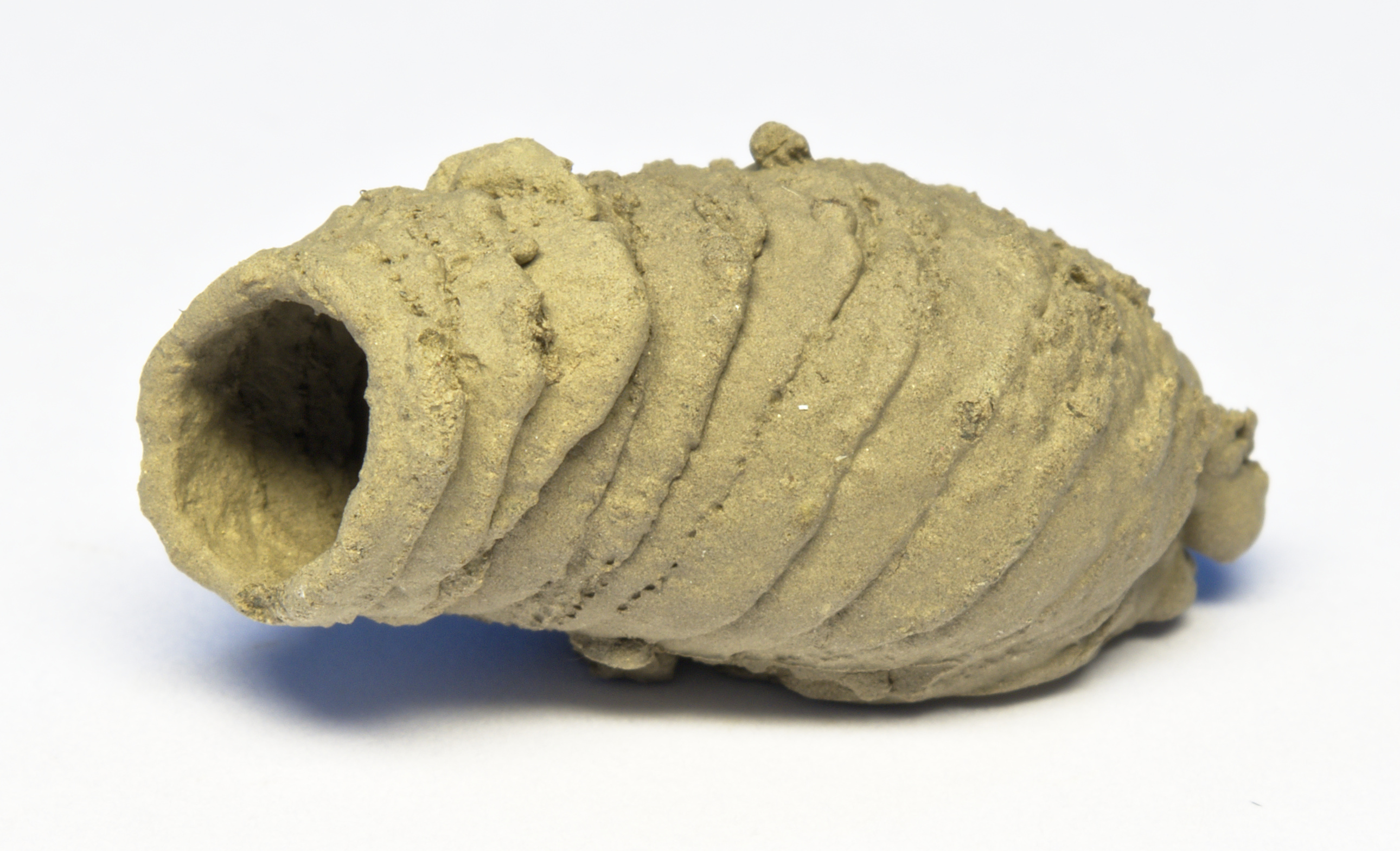 Opened nest of wasp Sceliphron curvatum (2.4×1cm).